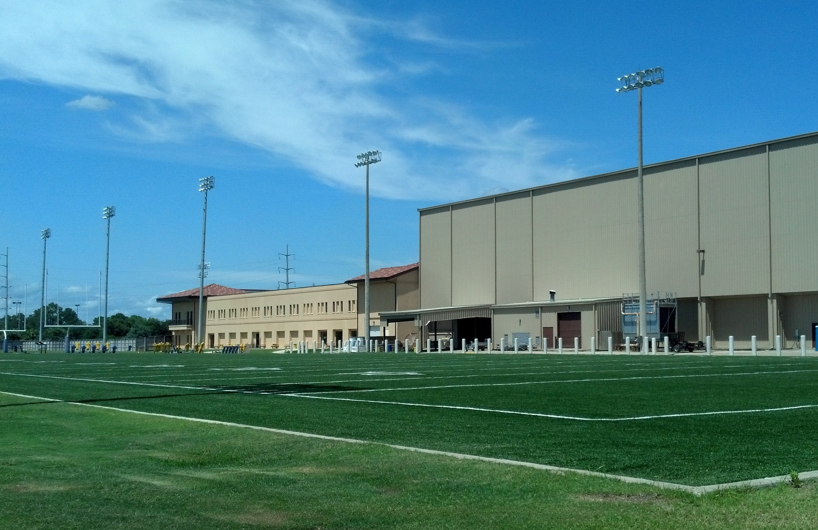 LSU Indoor Practice Facility